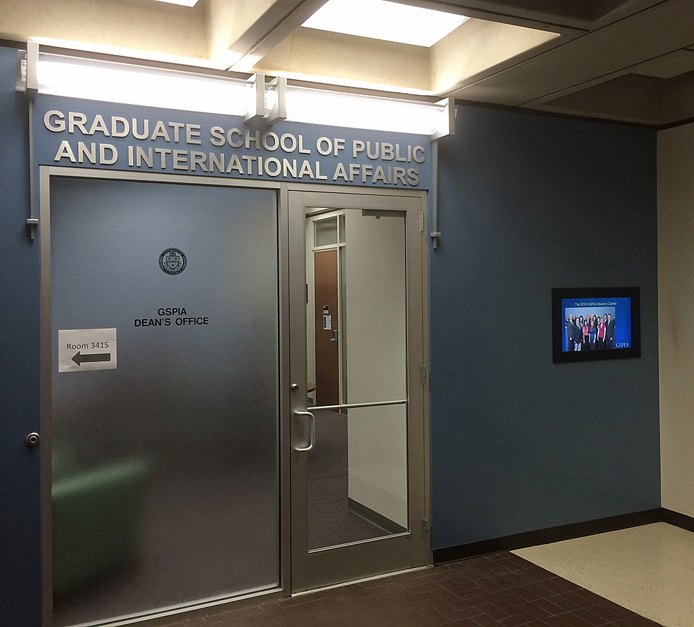 The Graduate School of Public and International Affairs on the 3rd floor of Posvar Hall at the University of Pittsburgh